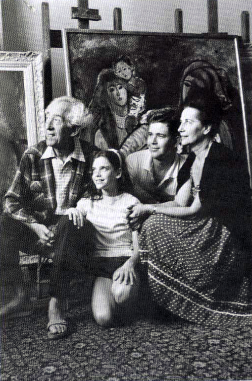 Reuven Rubin with his famely in his studio in Tel Aviv